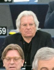 The launch of the euro two decades ago brought tangible benefits to people and companies across the EU. A ceremony in Parliament on 15 January marked the event. This photo is free to use under Creative Commons license CC-BY-4.0 and must be credited: "CC-BY-4.0: © European Union 20XY – Source: EP". ( No model release form if applicable. For bigger HR files please contact: webcom-flickr(AT)